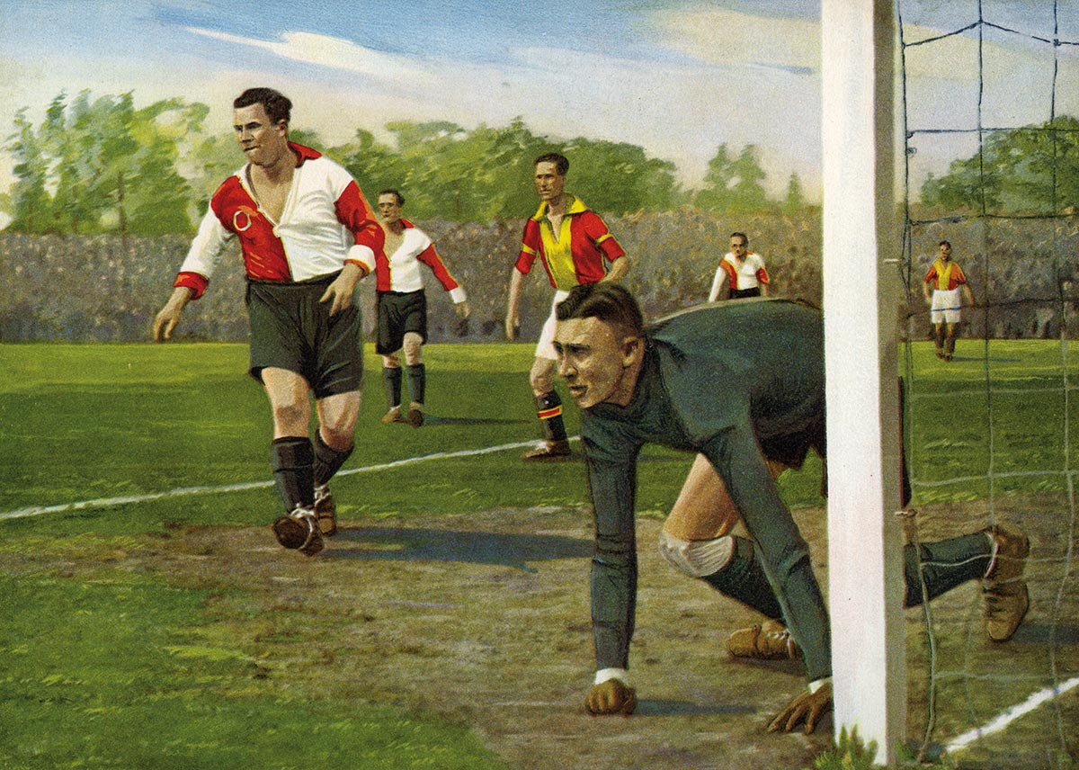 Cigarette card from Miss Blanche cigarettes package. The picture is part of a match between Feijenoord and Go Ahead in the 1930s. The illustrator is not credited, only N.V. The Vittoria Egyptian Cigarette Company, producer of Miss Blanche, is mentioned.